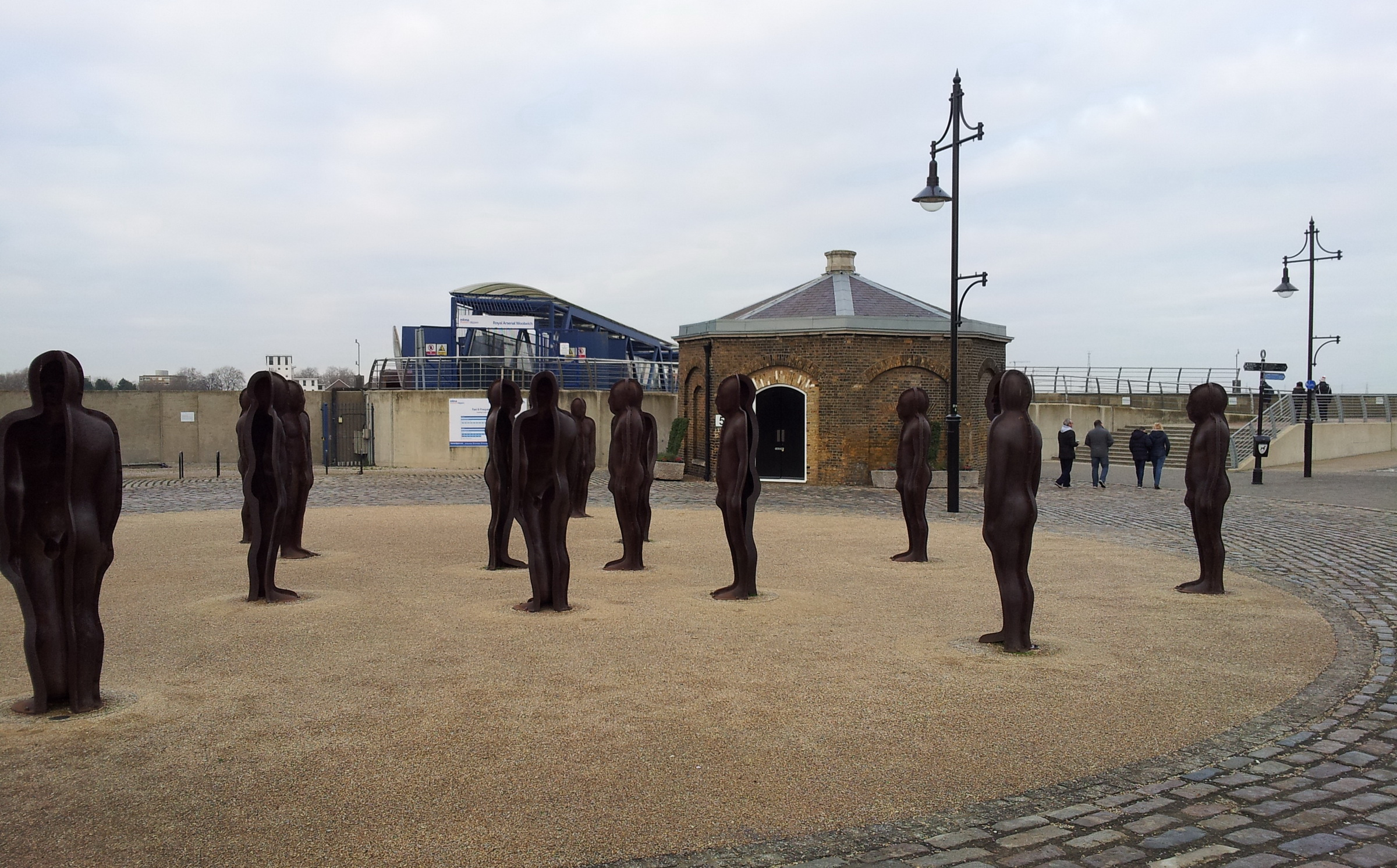 View of James Clavell Square in Royal Arsenal, Woolwich, South East London.